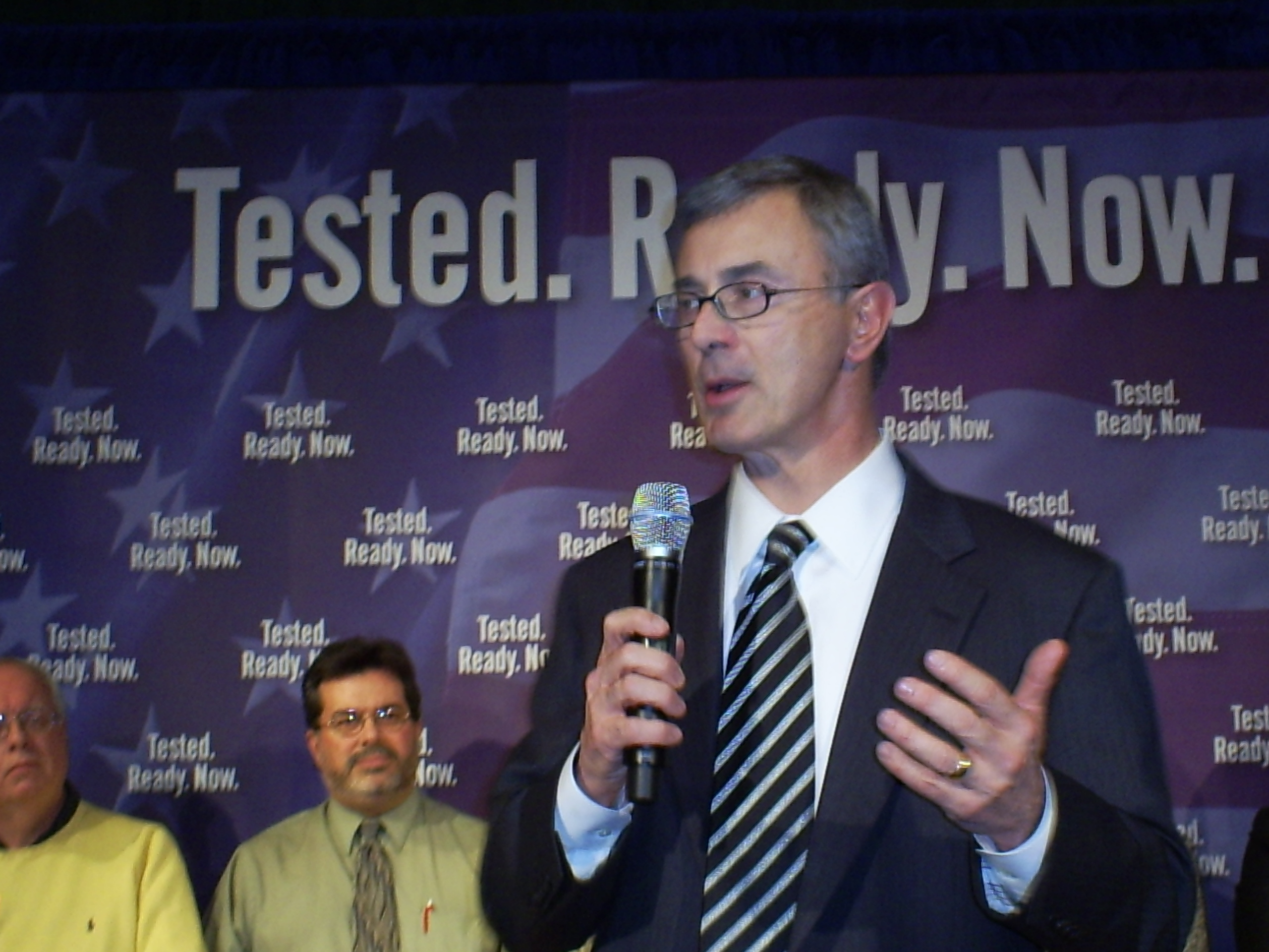 Paul Celluci. This was taken in 2008 at a campaign event for Presidential Candidate Rudy Giuliani in Derry, New Hampshire